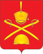 Coat of Arms of "Villagesmunicipality Borodinskoe" (municipal formations in Mozhaysky rayon (district), Moscow Oblast in Russia)